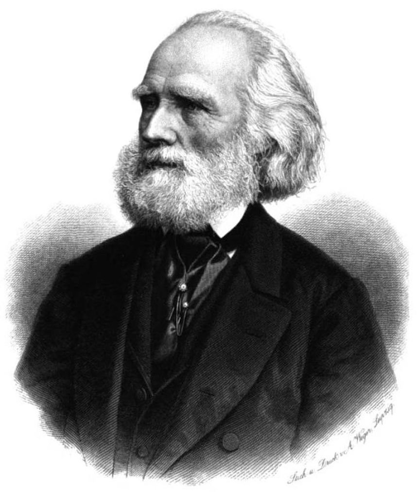 German botanist Alexander Braun (1805-1877)